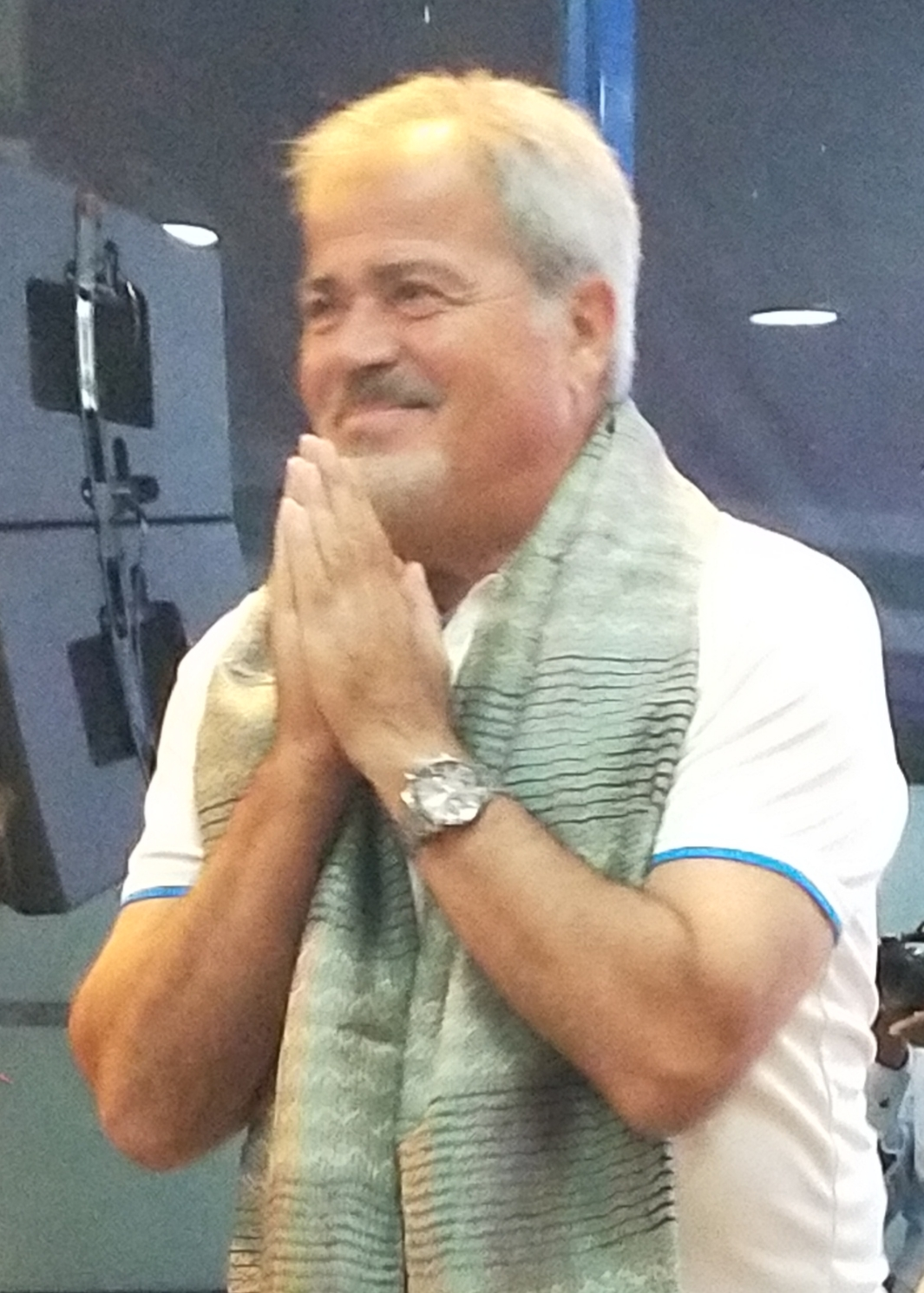 This file has been extracted from another file: Antonio Iriondo.jpg